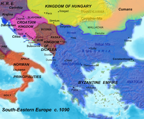 Created by Hxseek